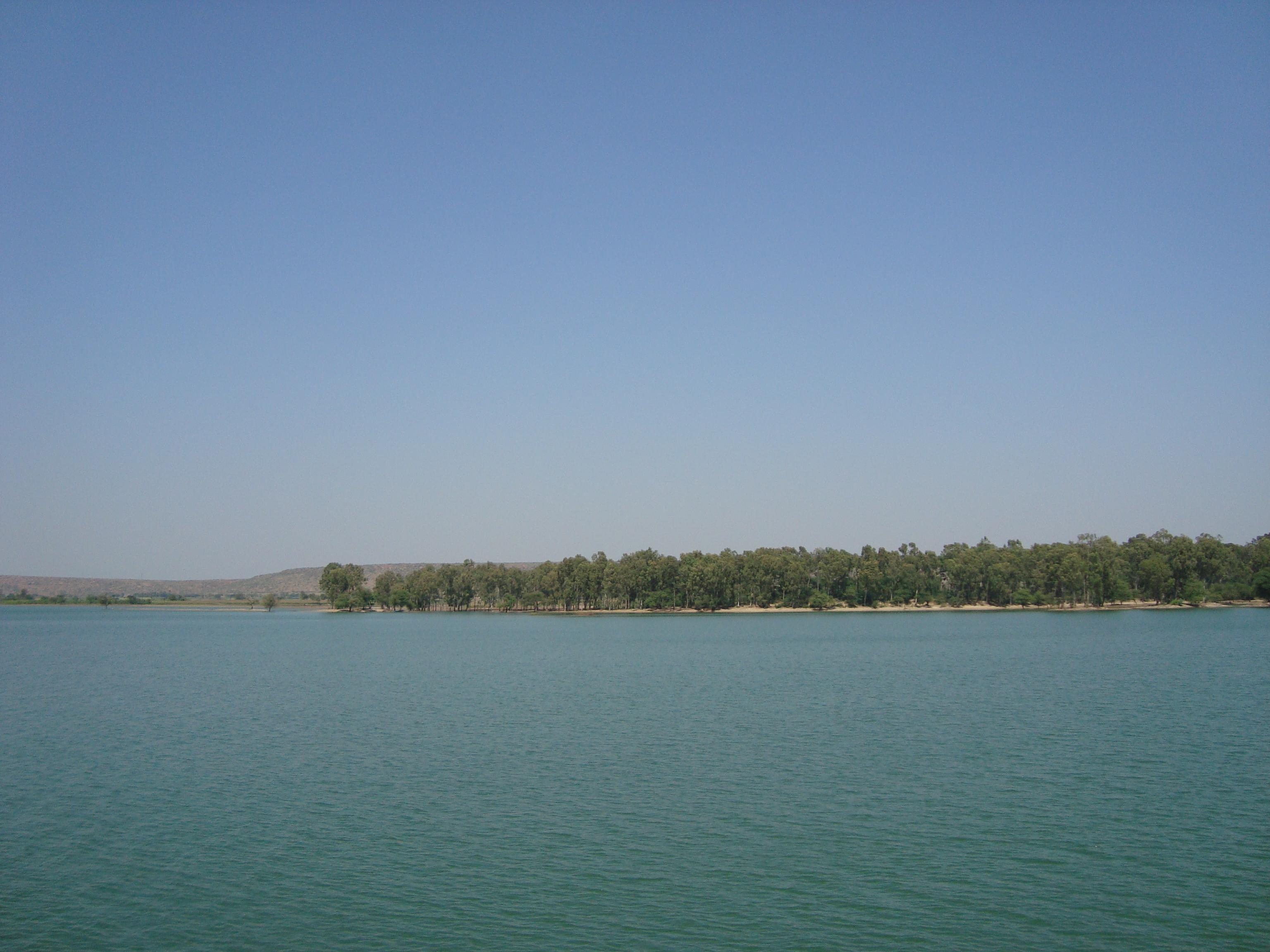 Navilateertha, Savadatti, Renuka sagara Author and Source : Manjunath Doddamani, Gajendragad, Karnataka (North), India